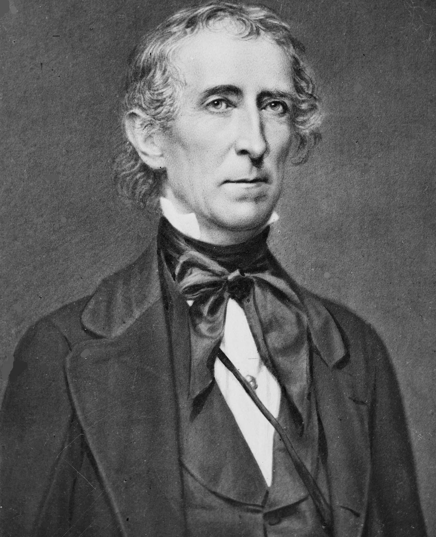 John Tyler.